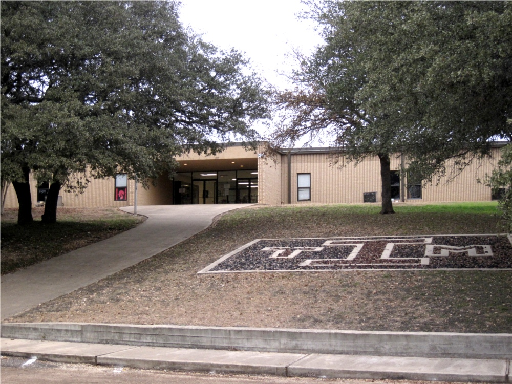 This is the front entrance to the main building of Ingram Tom Moore High School in Ingram, Texas, USA.